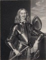 Portrait of Edward Somerset, 2nd Marquess of Worcester